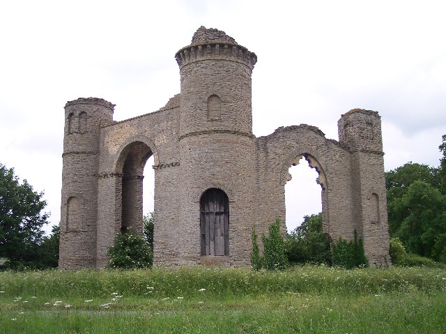 Dunstall "Castle" Folly built around 1766 to look like a ruined castle when viewed from nearby Croome Court.